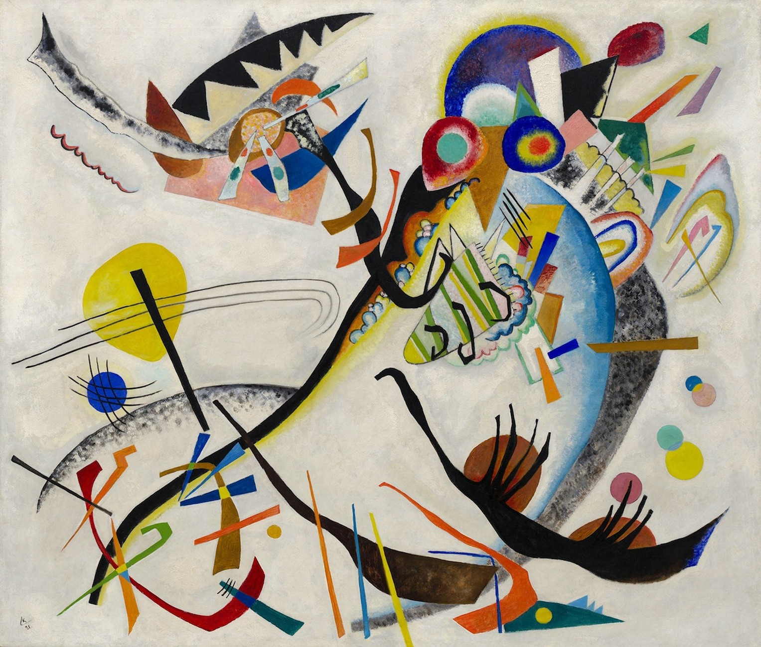 Segment bleu